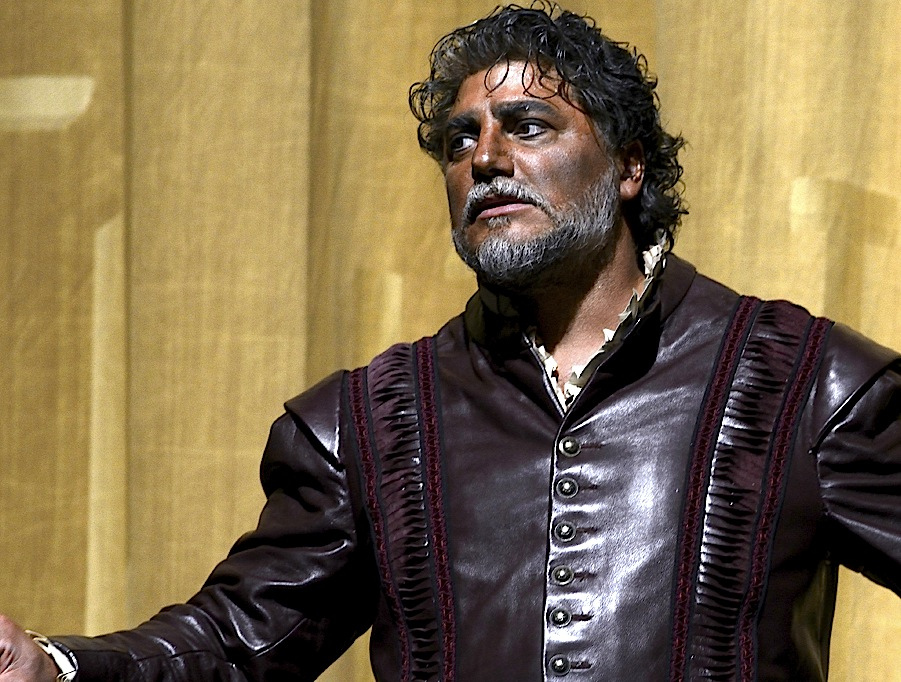 José Cura during the curtain call of 2013's production of Otello at the Met in New York